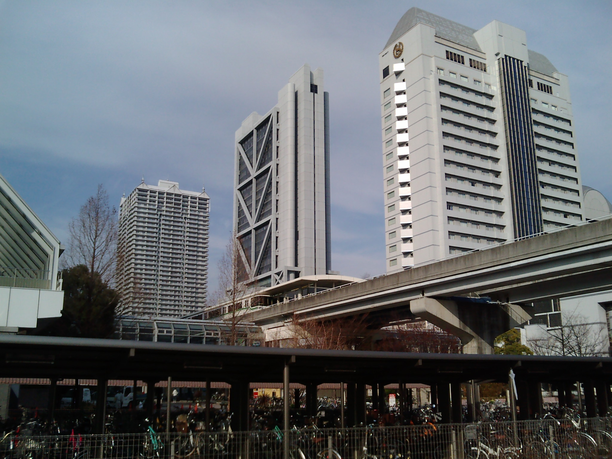 Island Center Station of Kobe New Transit in Higashi-Nada Ward, Kobe, Hyogo, Japan